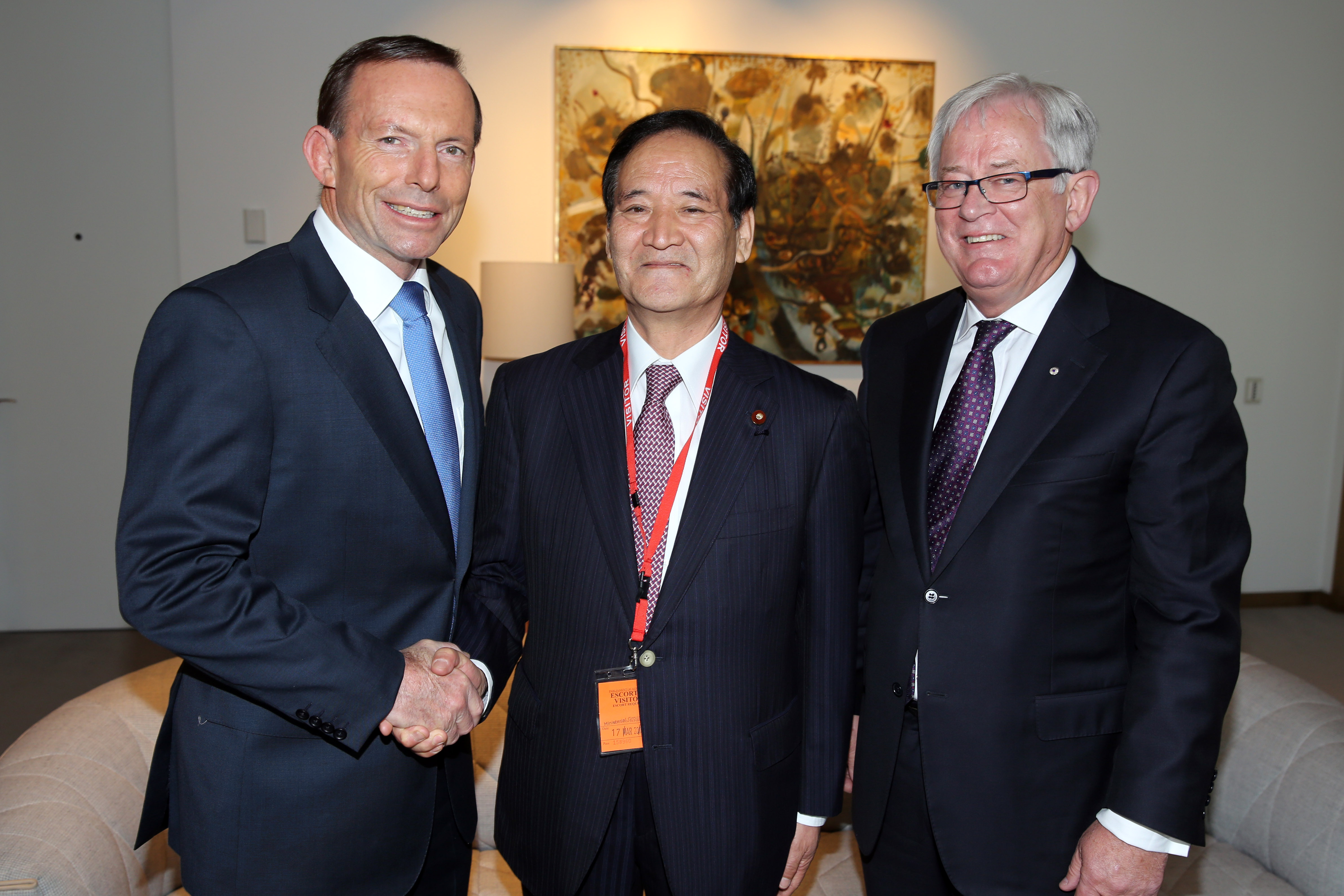 Kōya Nishikawa, Member of the House of Representatives, met Tony Abbott, Prime Minister, and Andrew Robb, Minister for Trade and Investment, on March 17, 2014.